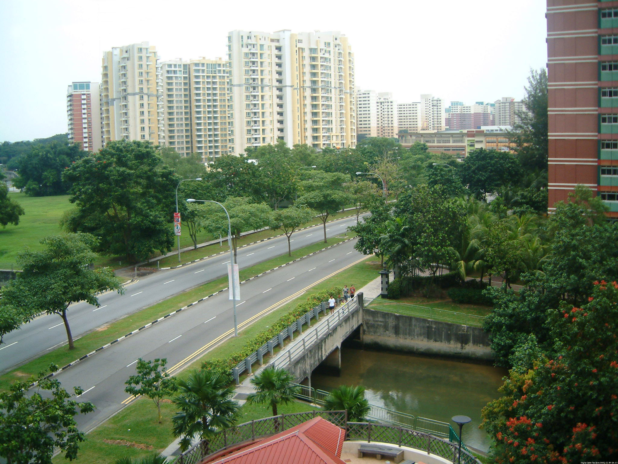 Suburb of Pasir Ris Pasir Ris, Republic of Singapore Img by Calvin C Teo